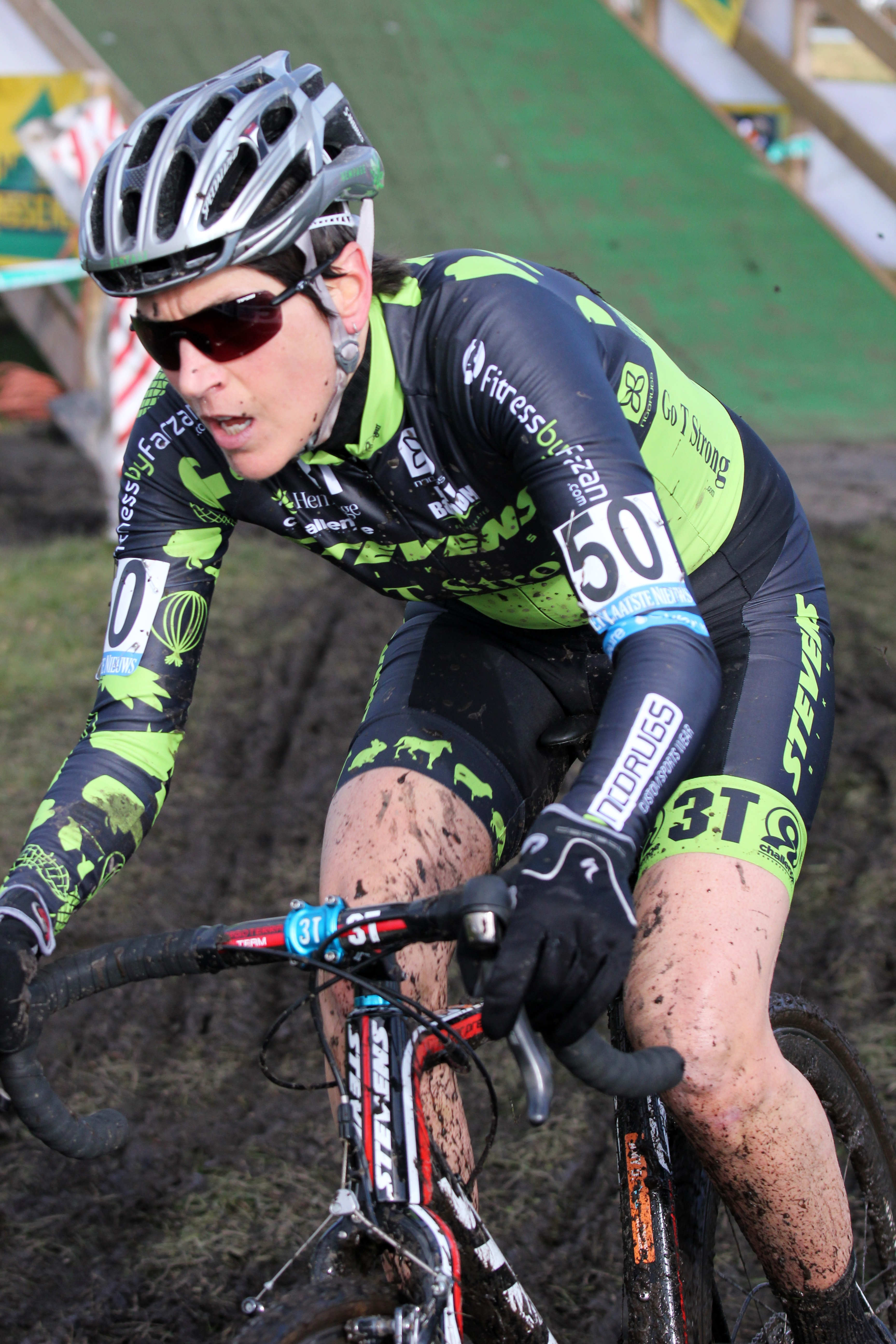 Profile photo of Christine Vardaros, taken at the SuperPrestige cyclo cross Hoogstraten 2015 by Marc van Est